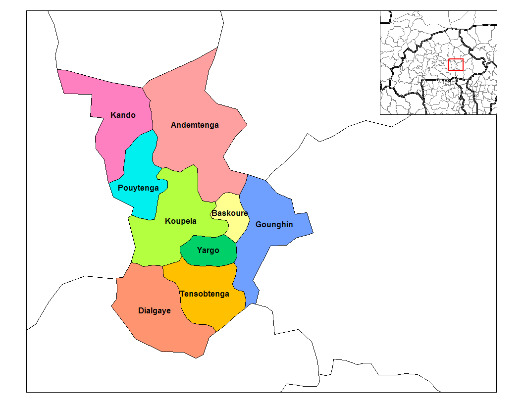 This map has been uploaded by Osiris fancy from to enable the Wikimedia Atlas of the World. Original uploader to was Rarelibra. Osiris fancy is not the creator of this map. Licensing information is below. Map of the departments of Kouritenga province in Burkina Faso. Created by Rarelibra 03:25, 30 September 2006 (UTC) for public domain use, using MapInfo Professional v8.5 and various mapping resources.